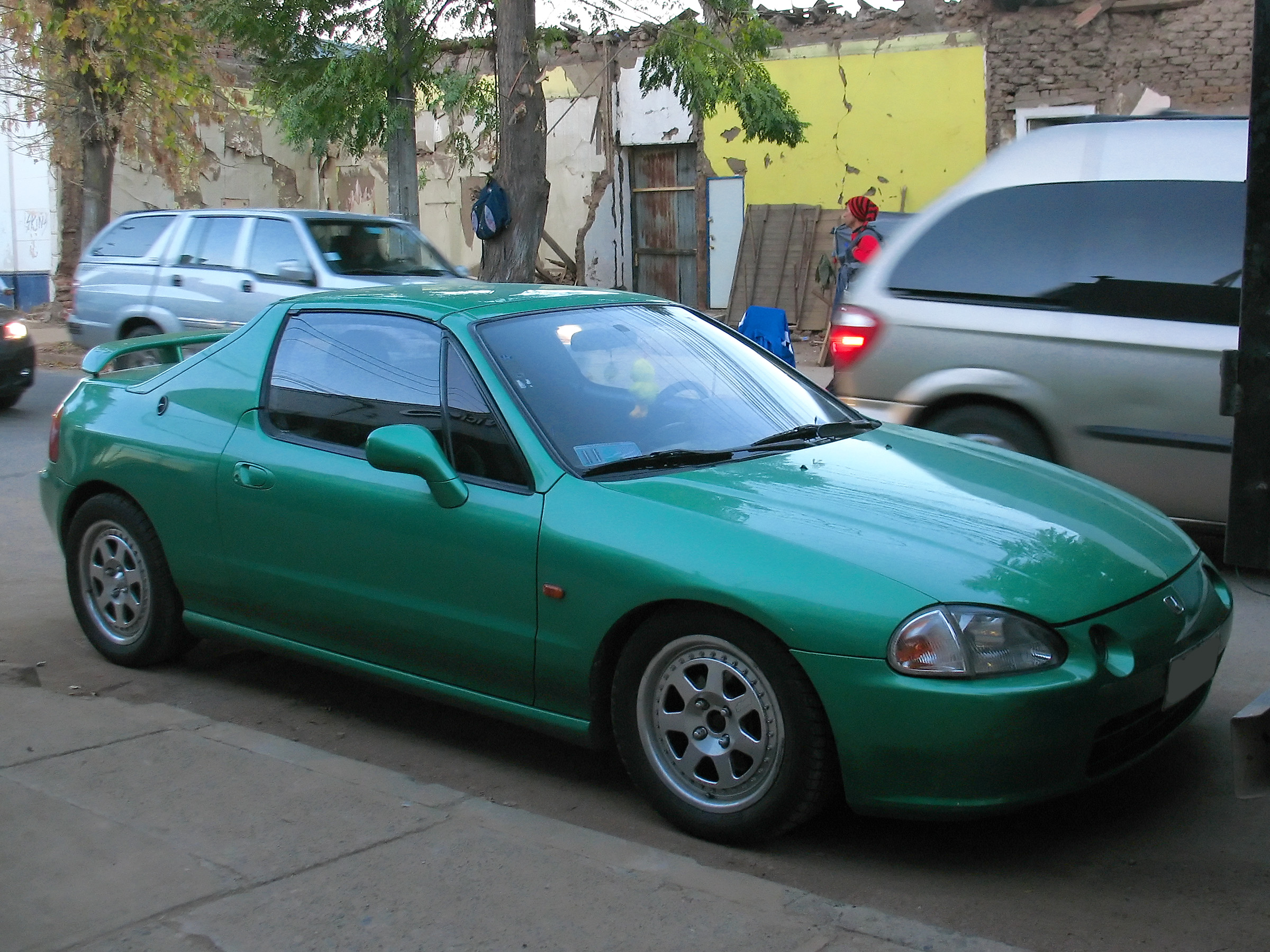 Civic "Of the Sun"